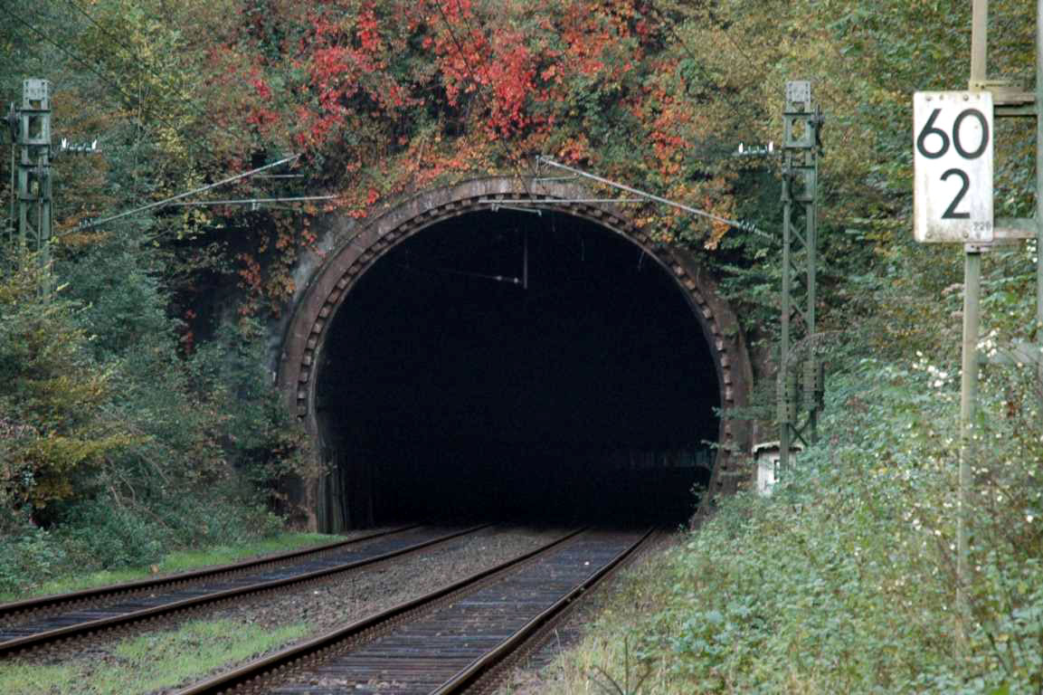 Southern porticus of Dallau tunnel.